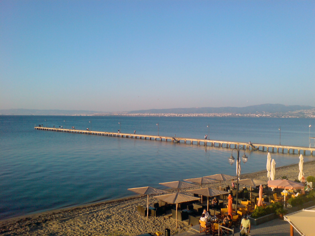 Coast line and beach of Perea, Thessaloniki prefecture, Greece. The cities of Thessaloniki and Kalamaria are visible in the background.